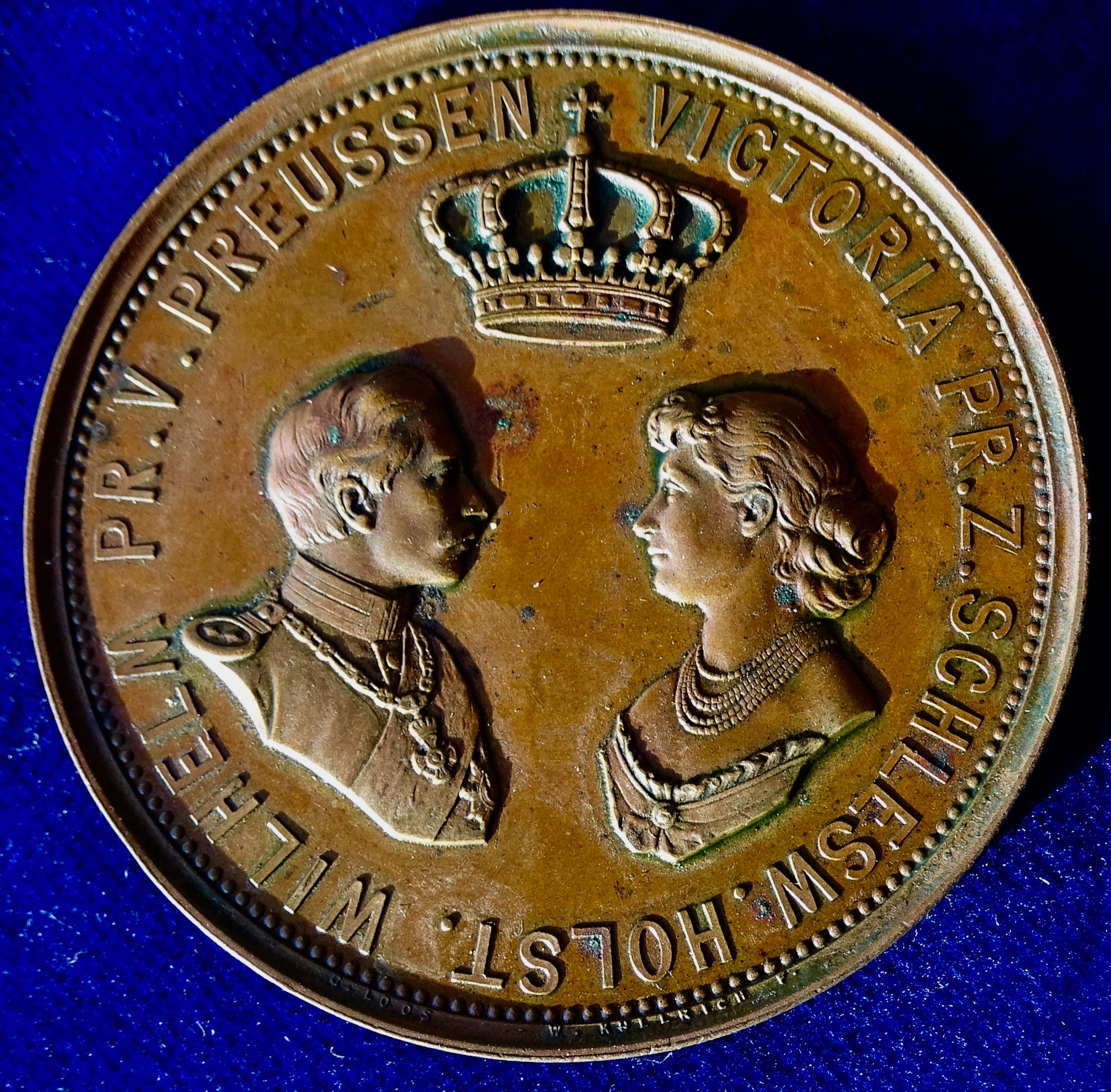 German State Prussia Wedding Medal 1881 Prince Wilhelm and Auguste Victoria Bronze medallion. d. = 54 mm. Wilhelm II, German Emperor. 1888 - 1918 and Augusta Victoria of Schleswig-Holstein, the last German empress and queen of Prussia, * 1858 - 1921 † Around 2 portraits facing each other below royal crown: "WILHELM PR.V. PREUSSEN VICTORIA PR.Z. SCHLESW. HOLST."/ The royal couple shaking hands in front of 3 squires carrying the shields of Prussia, Germany, and Schleswig-Holstein. 2 lines in exergue: "VERMAEHLT BERLIN 27 FEBR. 1881". Slg Marienburg 6783; Sommer K 94; Lange 570 b. Condition: EXTREMELY FINE+.